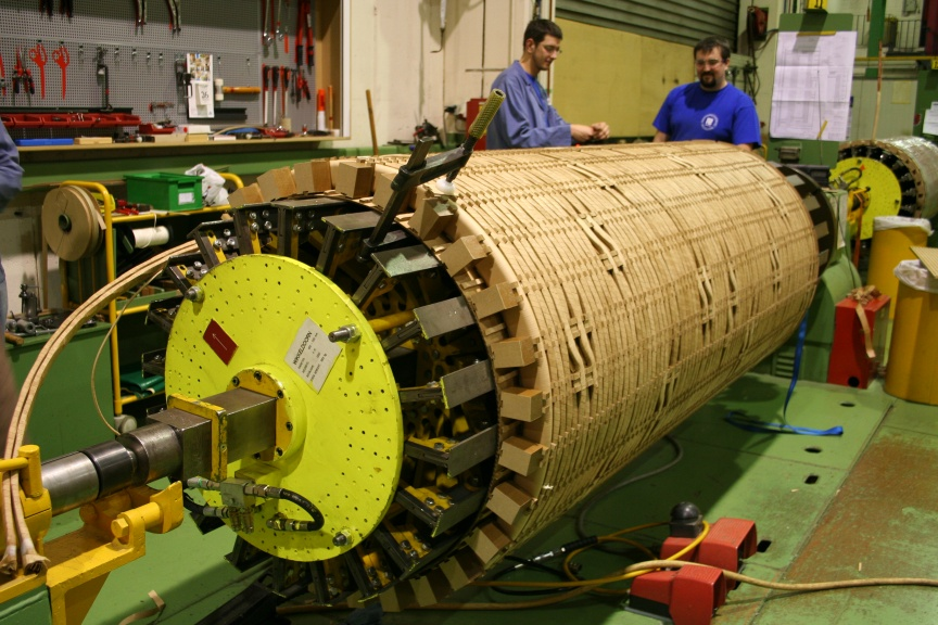 A power transformer winding on the winding spindle